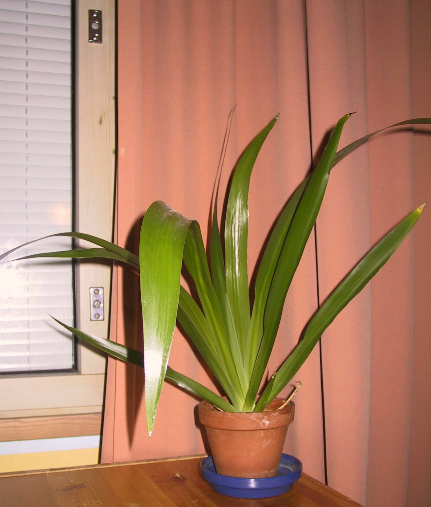 Neomarica northiana, Apostle Plant